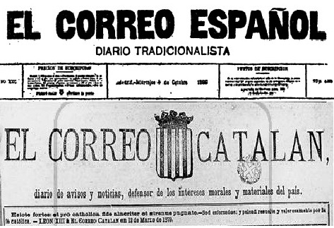 vignettes